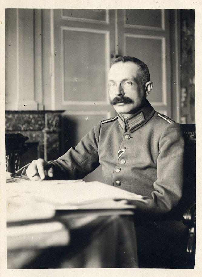 Dr Harry Marcuse (1876-1931), German psychiatrist